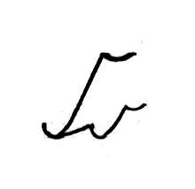 Handwritten form of the "Ґґ" letter